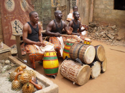 image représentatif d'un rythme traditionnel au Bénin